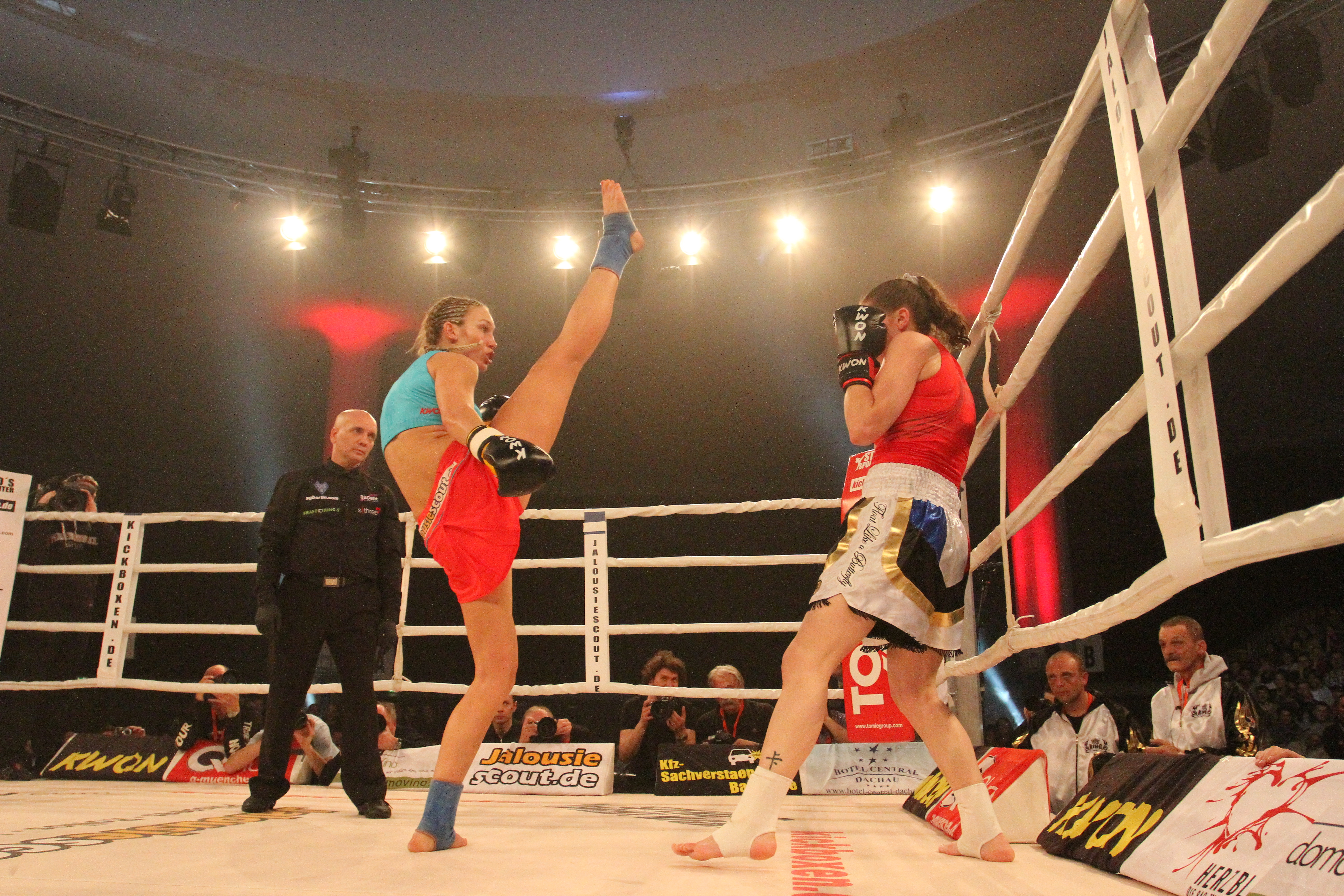 Christine Theiss vs. Cathy Le-Mee